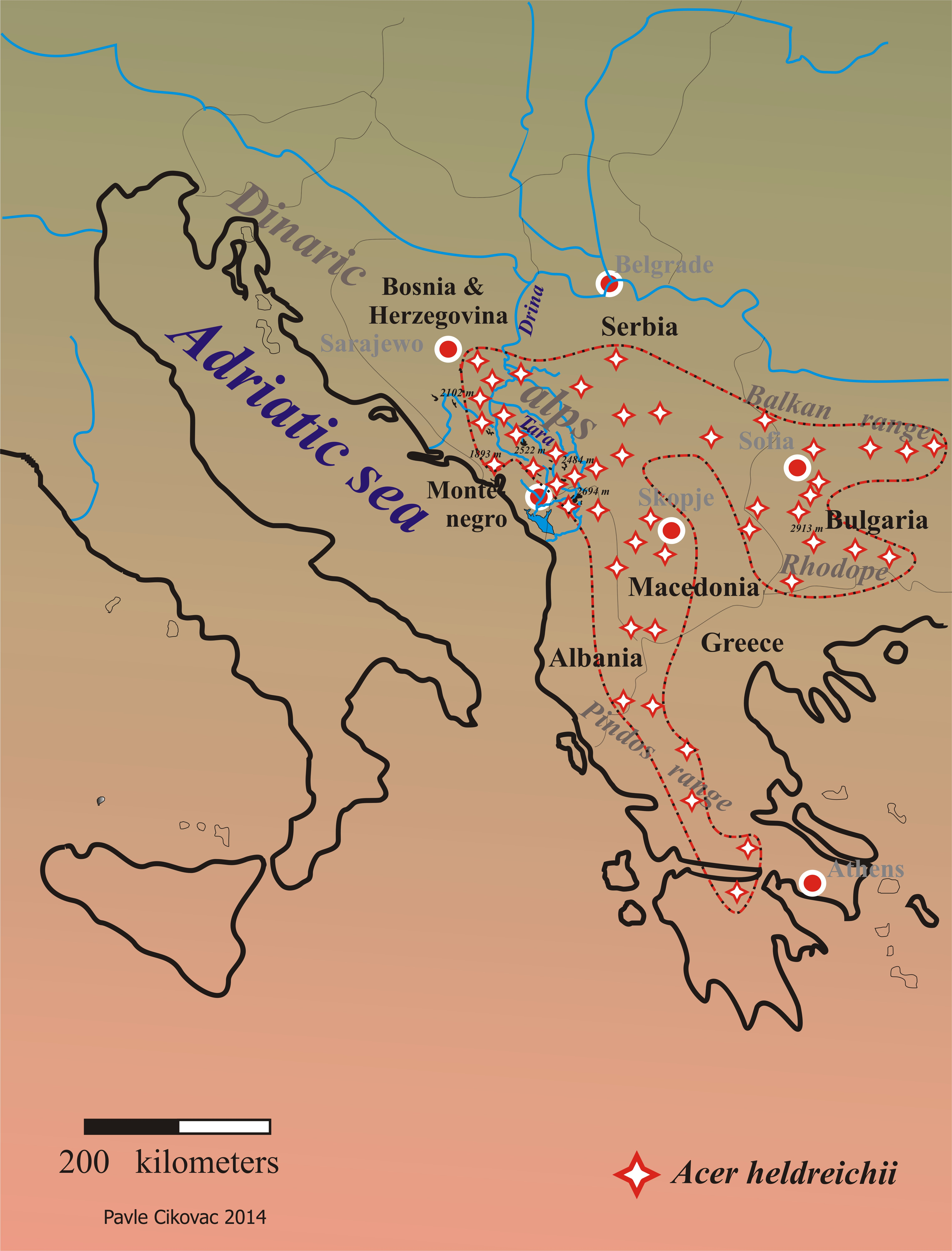 Acer heldreichii distributinal map